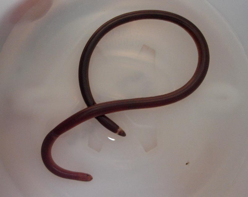 Typhlops platycephalus. For information about the species ID see here and here.